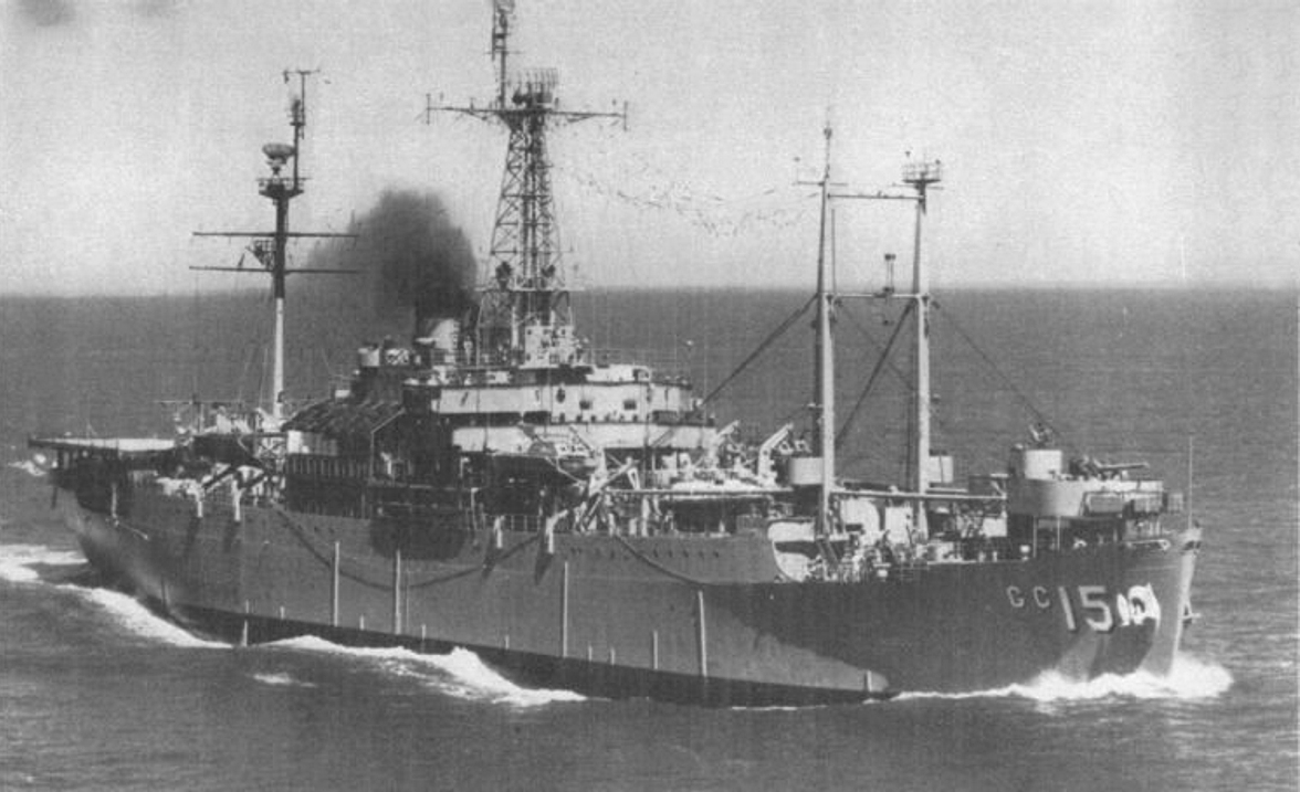 The U.S. Navy amphibious command ship USS Adirondack (AGC-15) underway. The AN/SPS-6 radar on the mainmast and the helicopter landing platform aft show that this photo was taken during her second commission between 4 April 1951 and 9 February 1955.